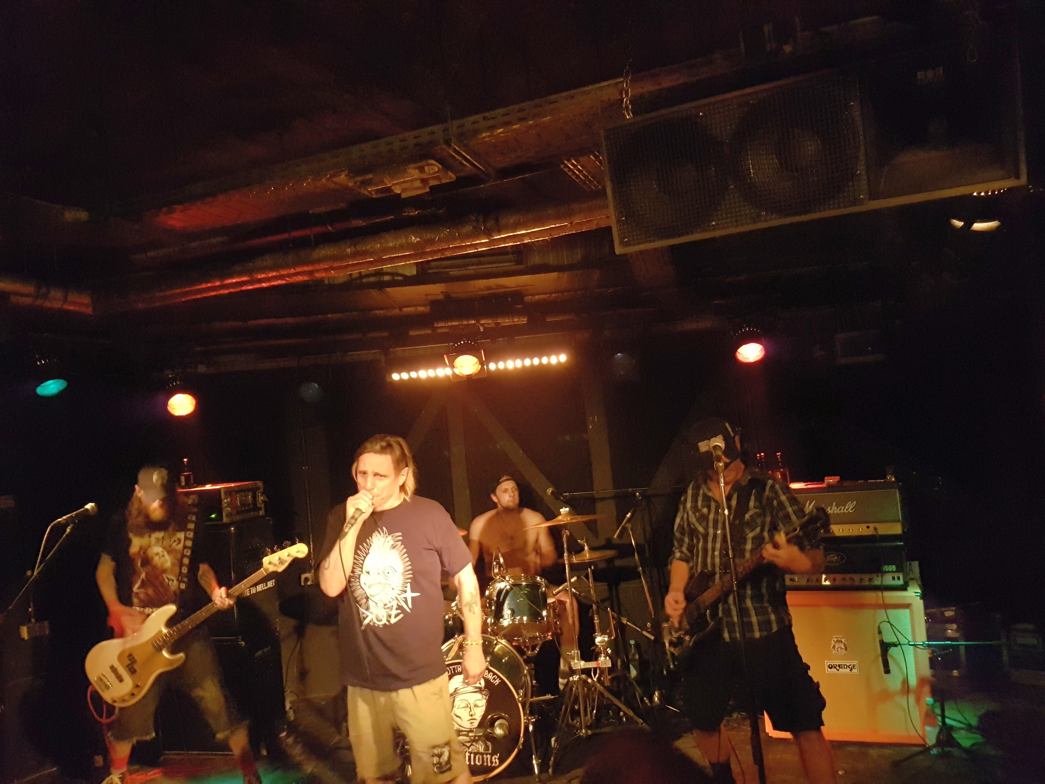 MDC, punk band from Austin (USA). Hafenklang, Hamburg (Germany), 31.07.2017.